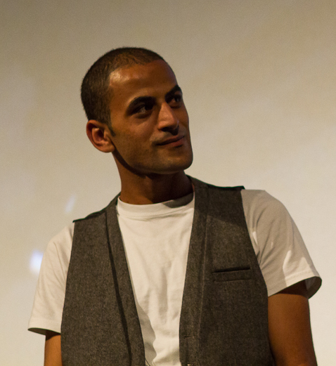 Adam Bakri with Eyad Hourani (Toronto International Film Festival 2013, Bloor Hot Docs Theatre)